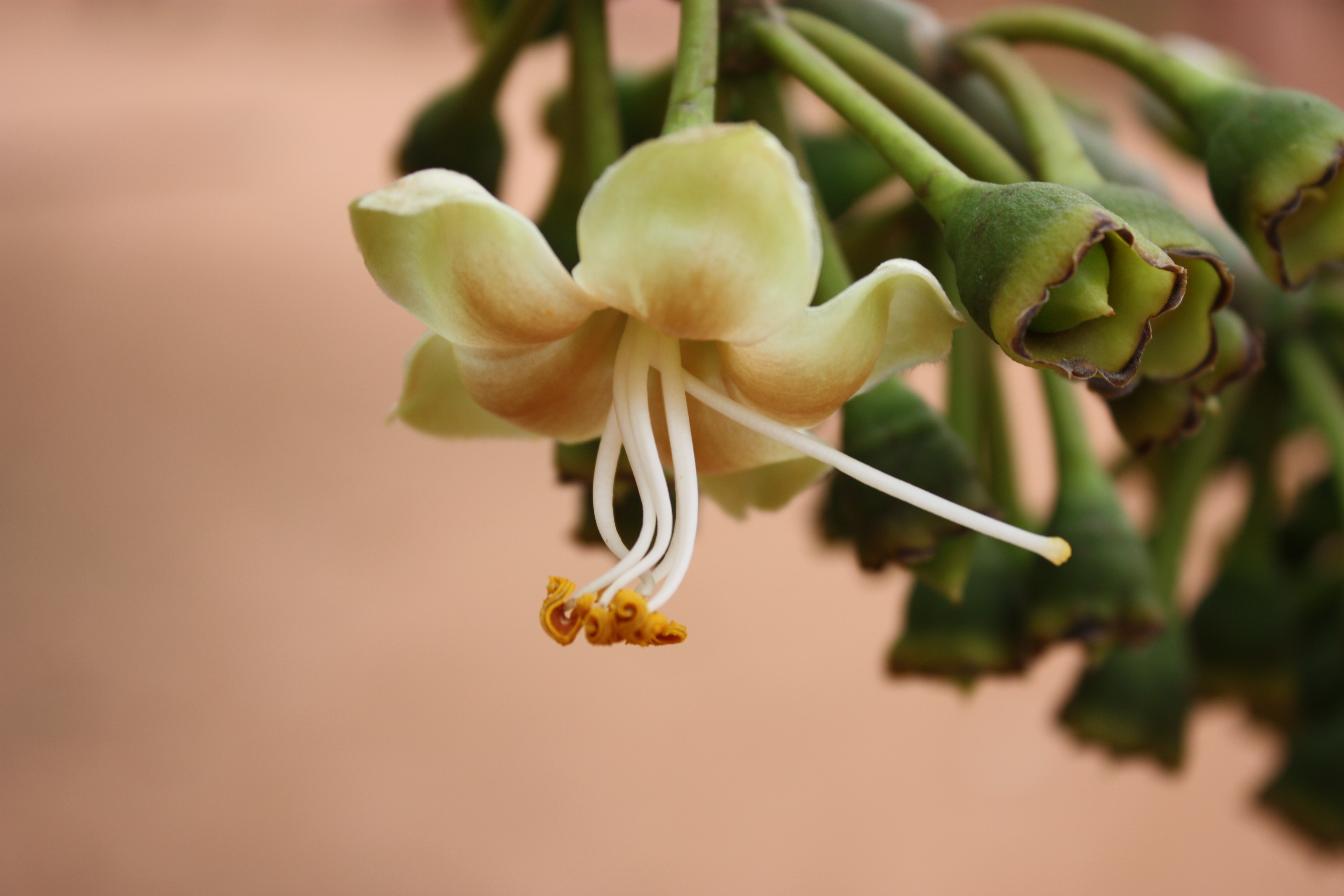 Flower of Ceiba pentandra, Ouagadougou University Campus, Burkina Faso